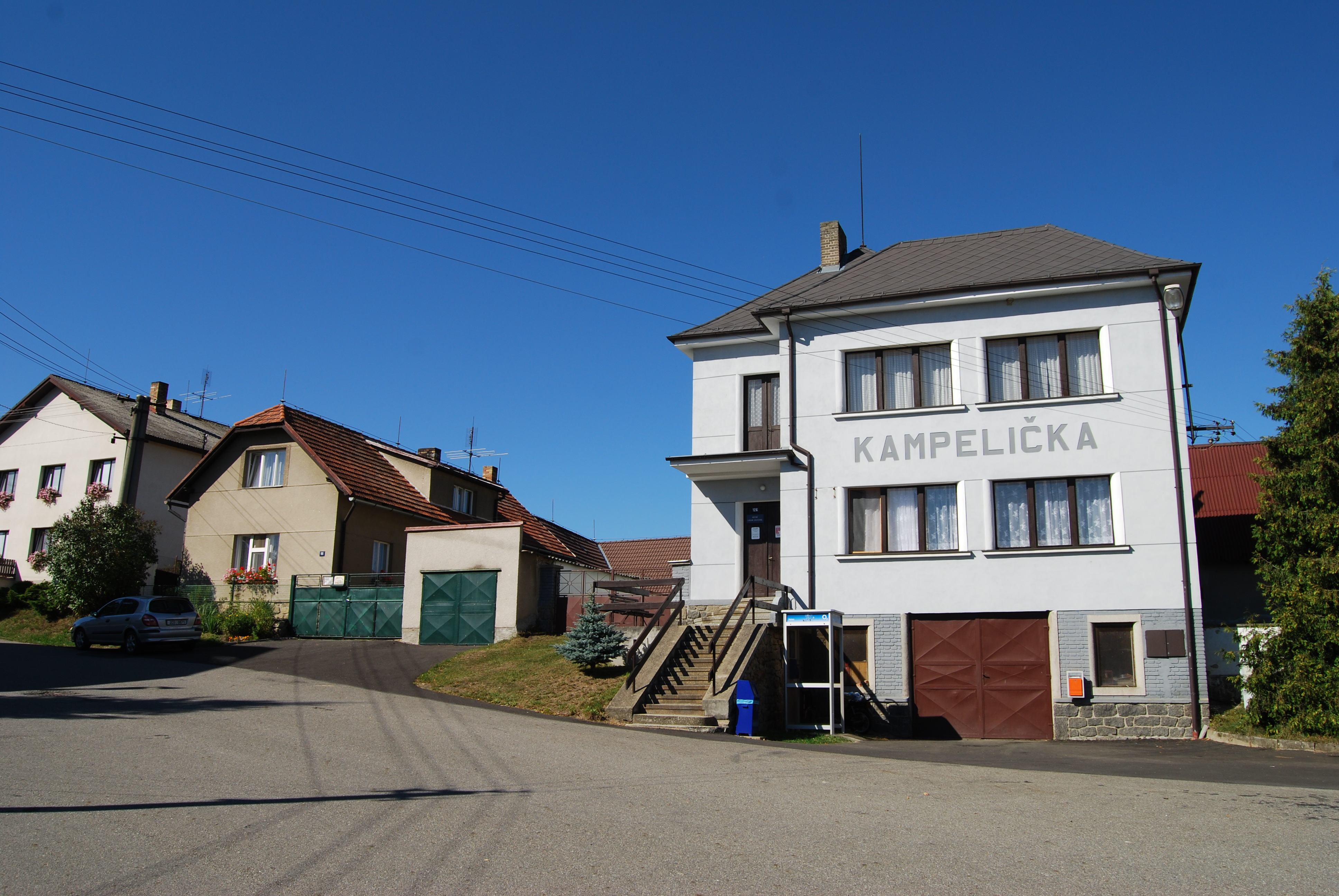 Božetice village in Pisek District, Czech Republic.